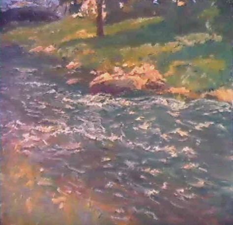 River landscape on a bright summer day, 40 x 58 cm